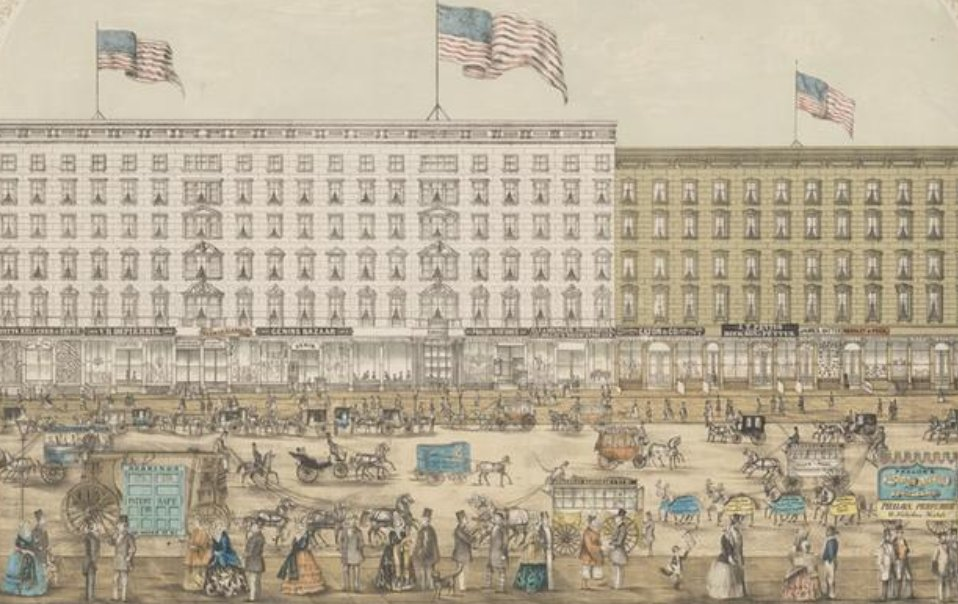 St. Nicholas-Hotel Broadway, N. Y. Lithogr. & printed by F. Heppenheimer, 22 North William St. N.Y. Published by W. Stephenson & Co. 252...